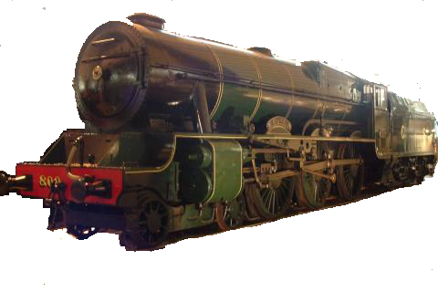 GSR 800 Class 4-6-0 steam locomotive 800 Maeḋḃ ("Maeve") at Ulster Museum of Transport, Cultra, Co. Down, Northern Ireland